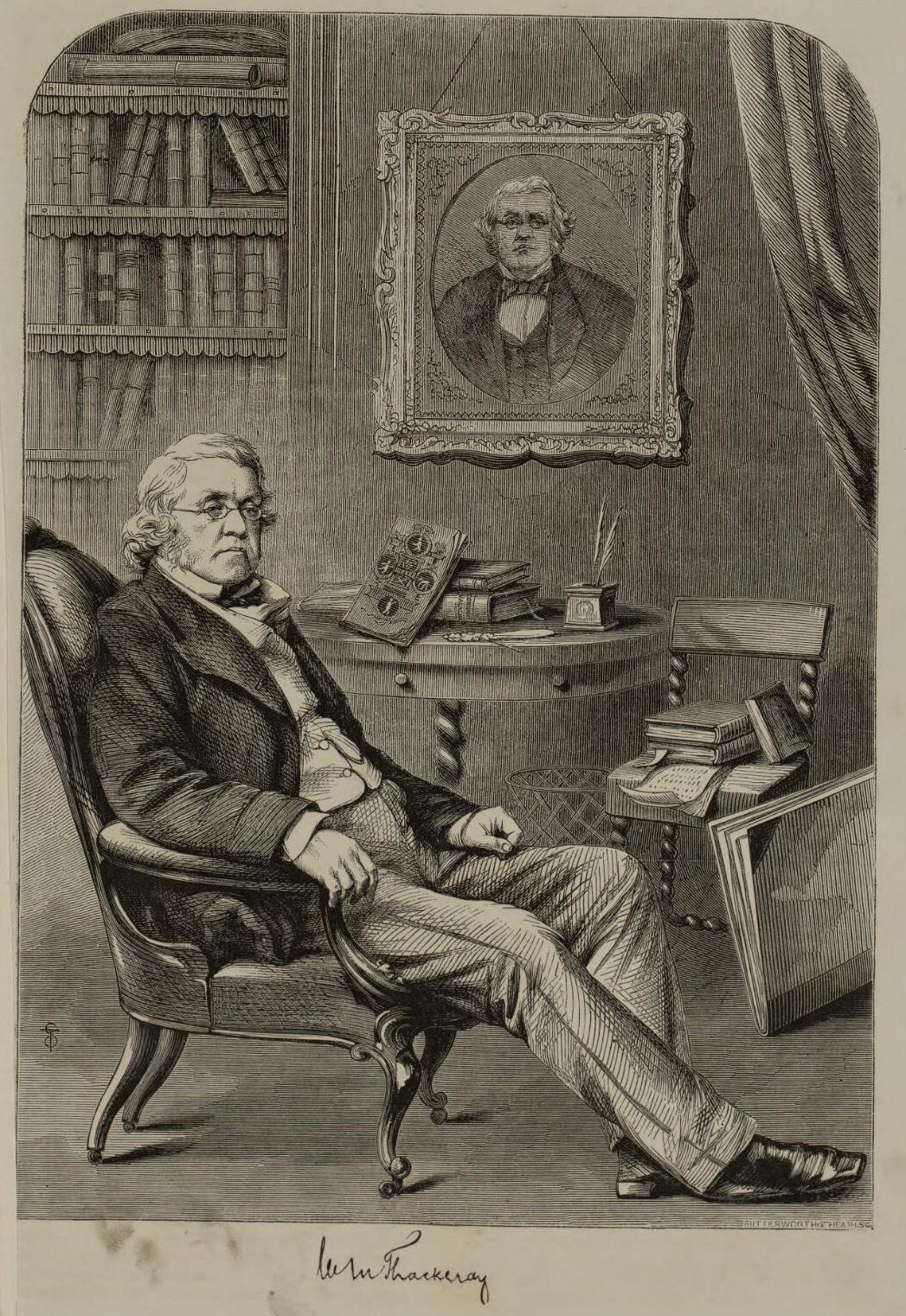 A portrait from the Welsh Portrait Collection at the National Library of Wales. Depicted person: William Makepeace Thackeray – British novelist